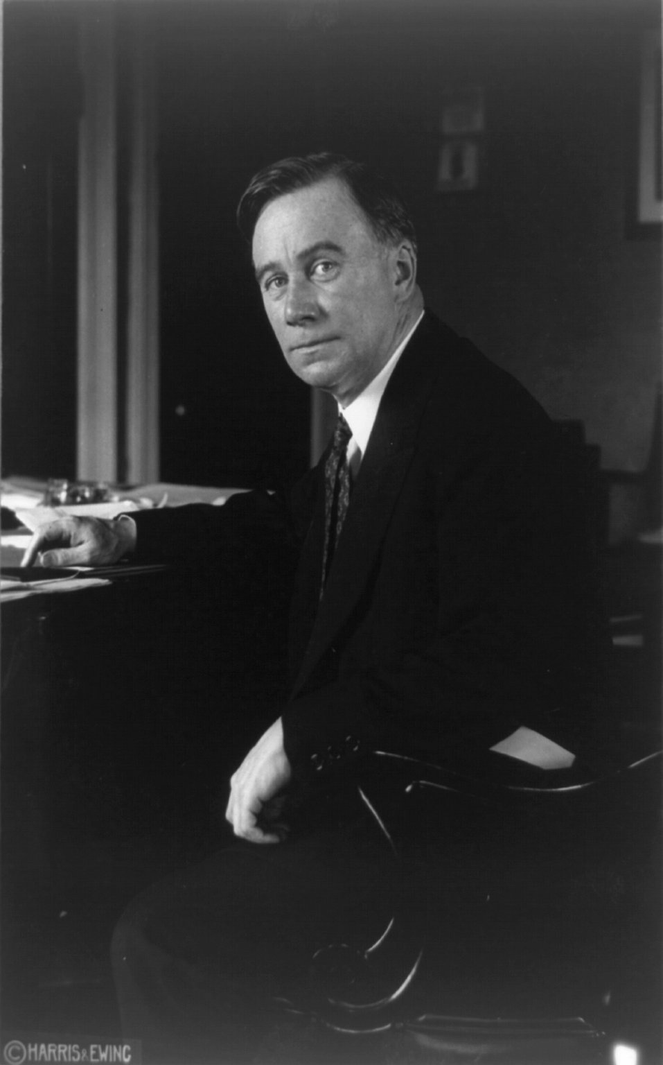 Francis Patrick Garvan, three-quarter length portrait, seated at desk, facing left